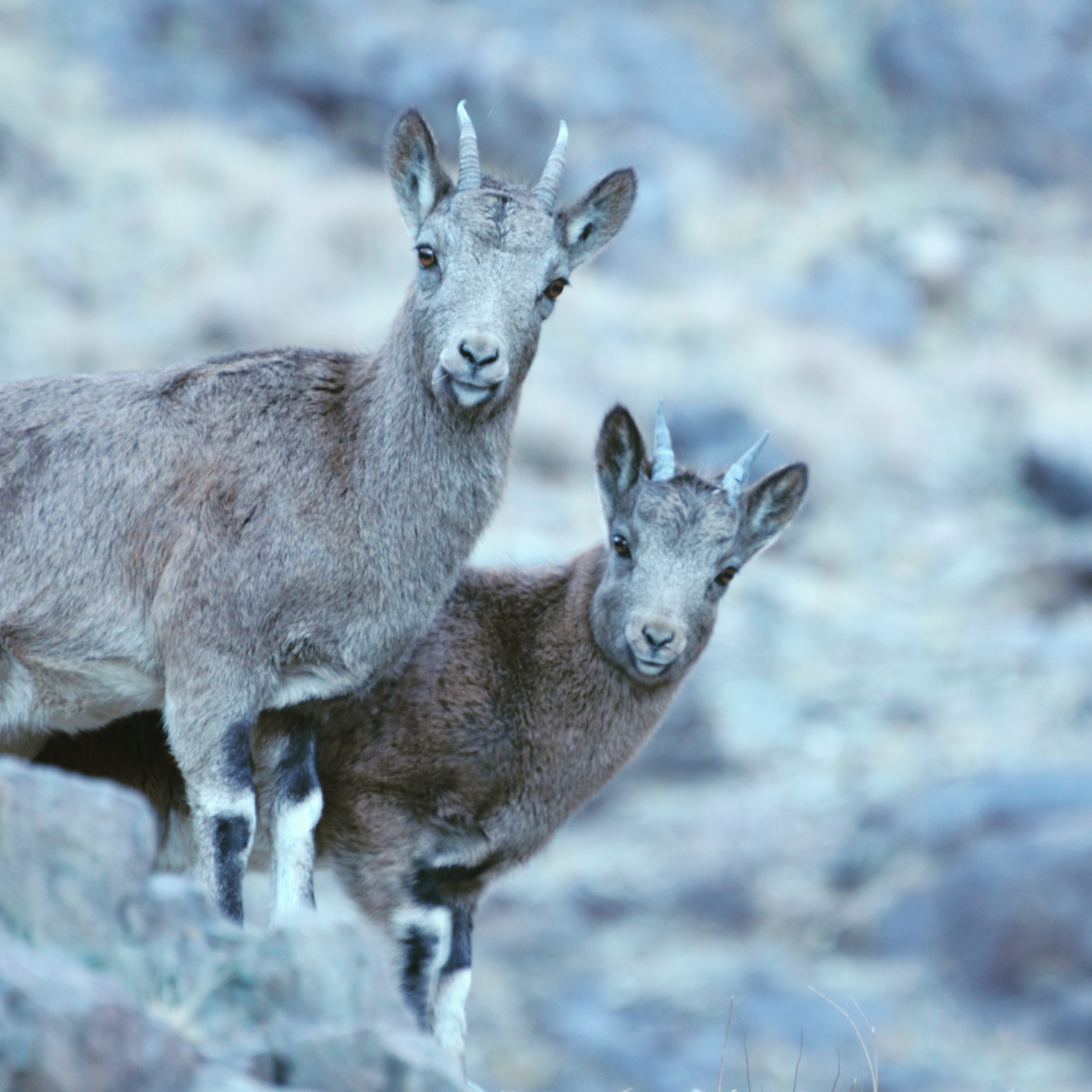 Two ibex from Tost Nature Reserve in Mongolia